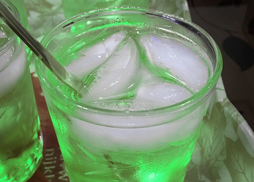 Sekanjebin (Serk-angebin) is an Iranian cold drink made of made of honey and vinegar.